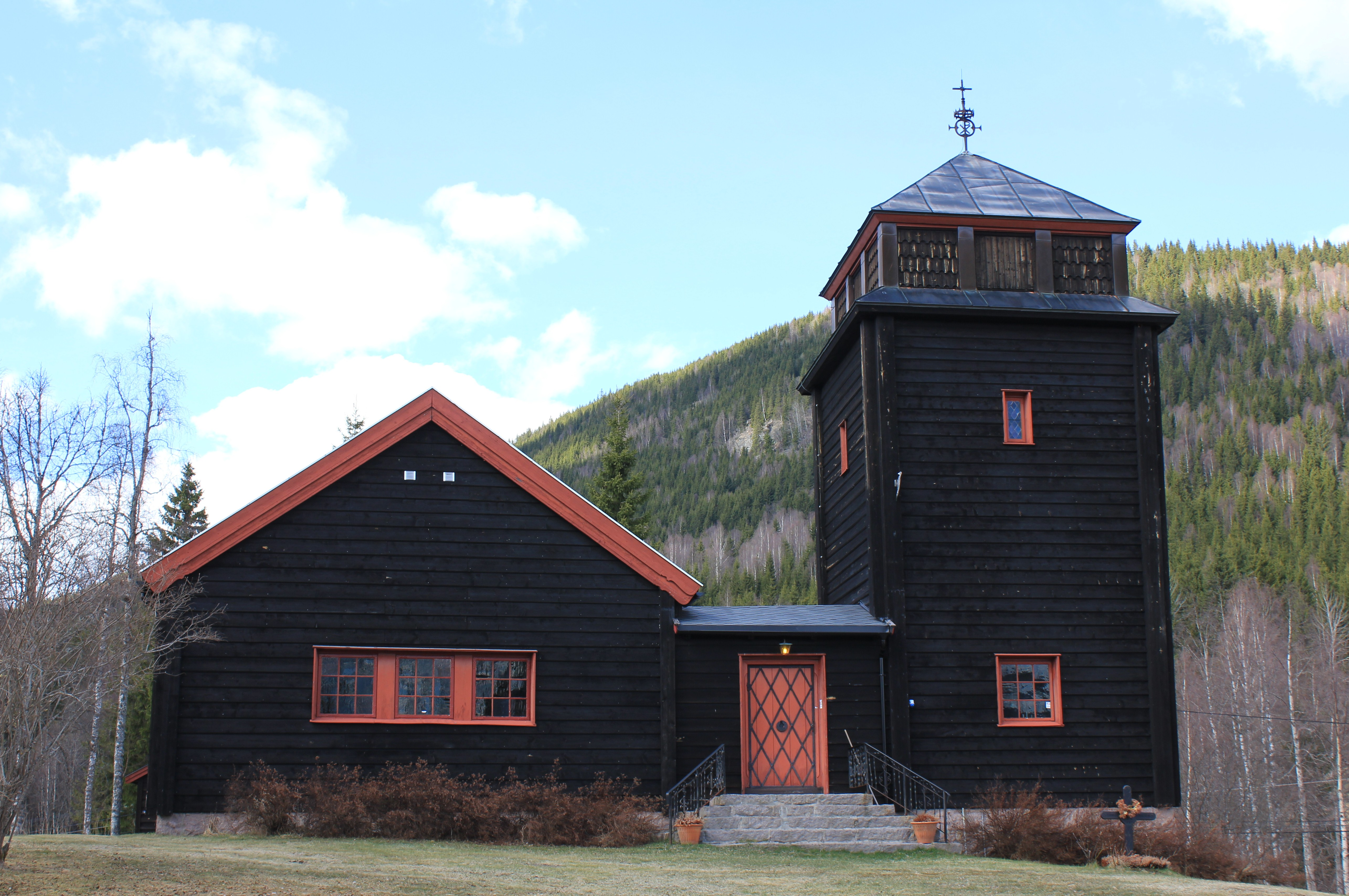 Skrukkelia Church in Hurdal, Akershus, Norway.